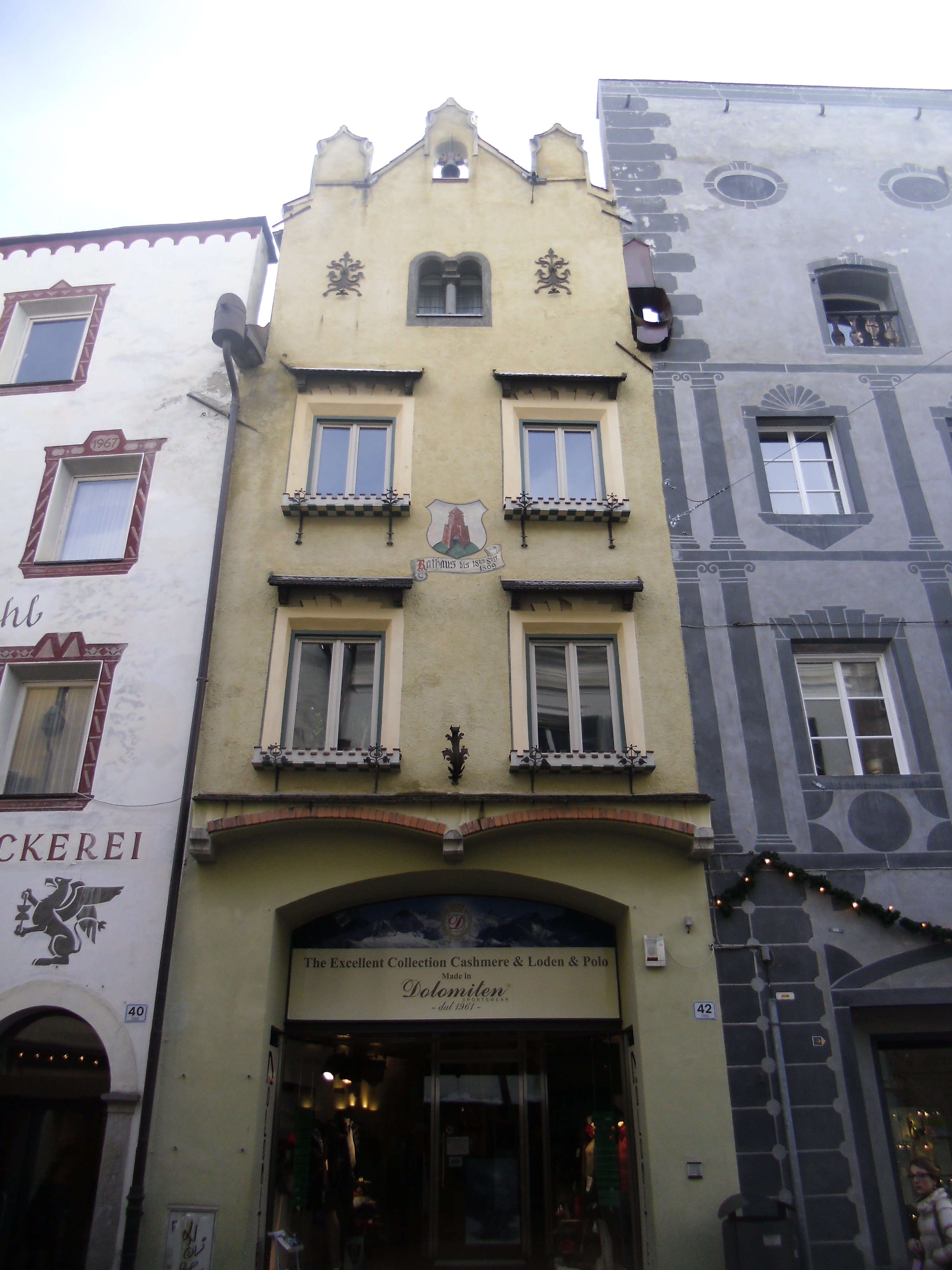 Stadtgasse 42